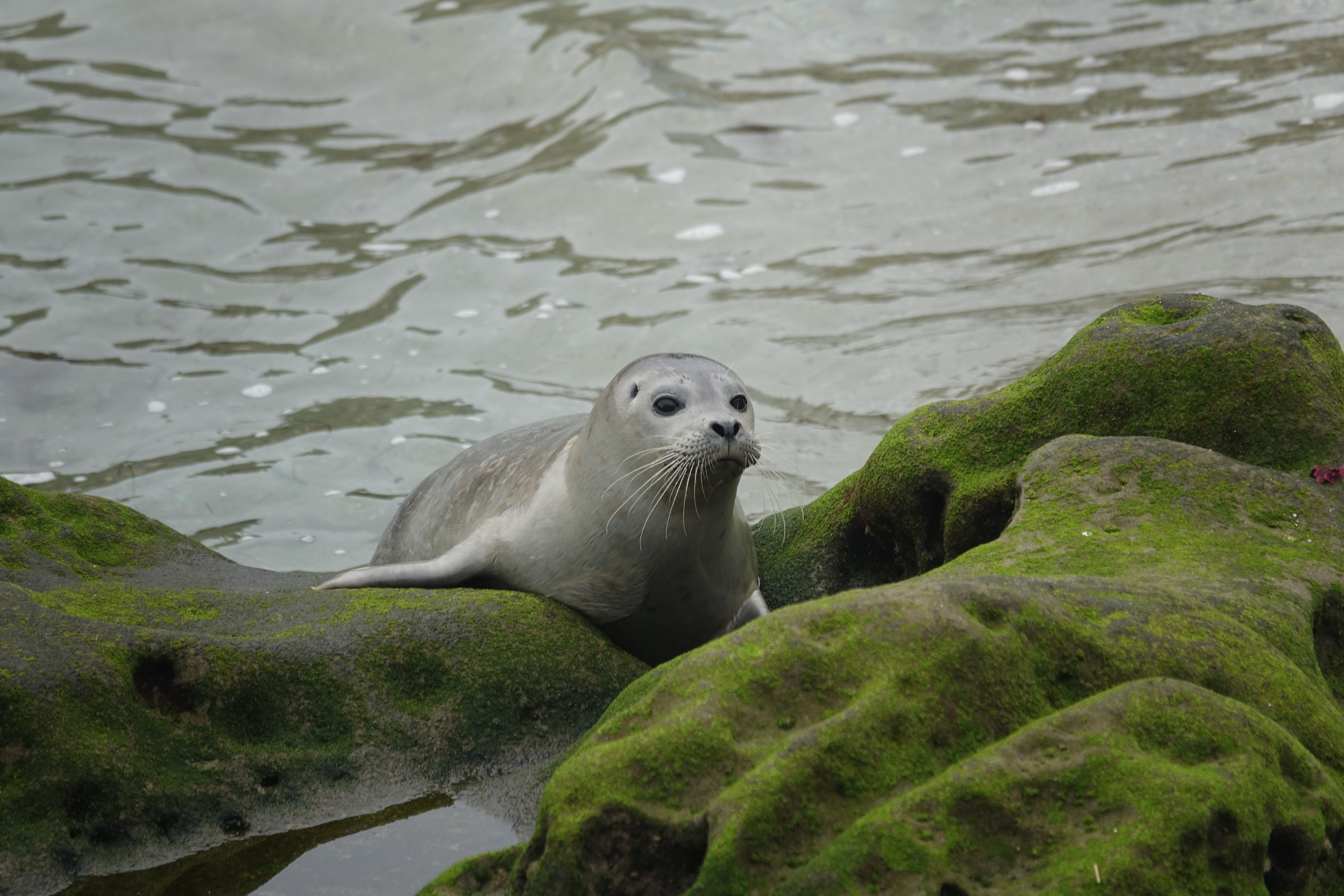 Grey seal